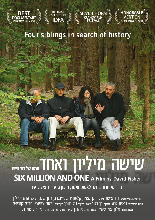 פוסטר שישה מיליון ואחד